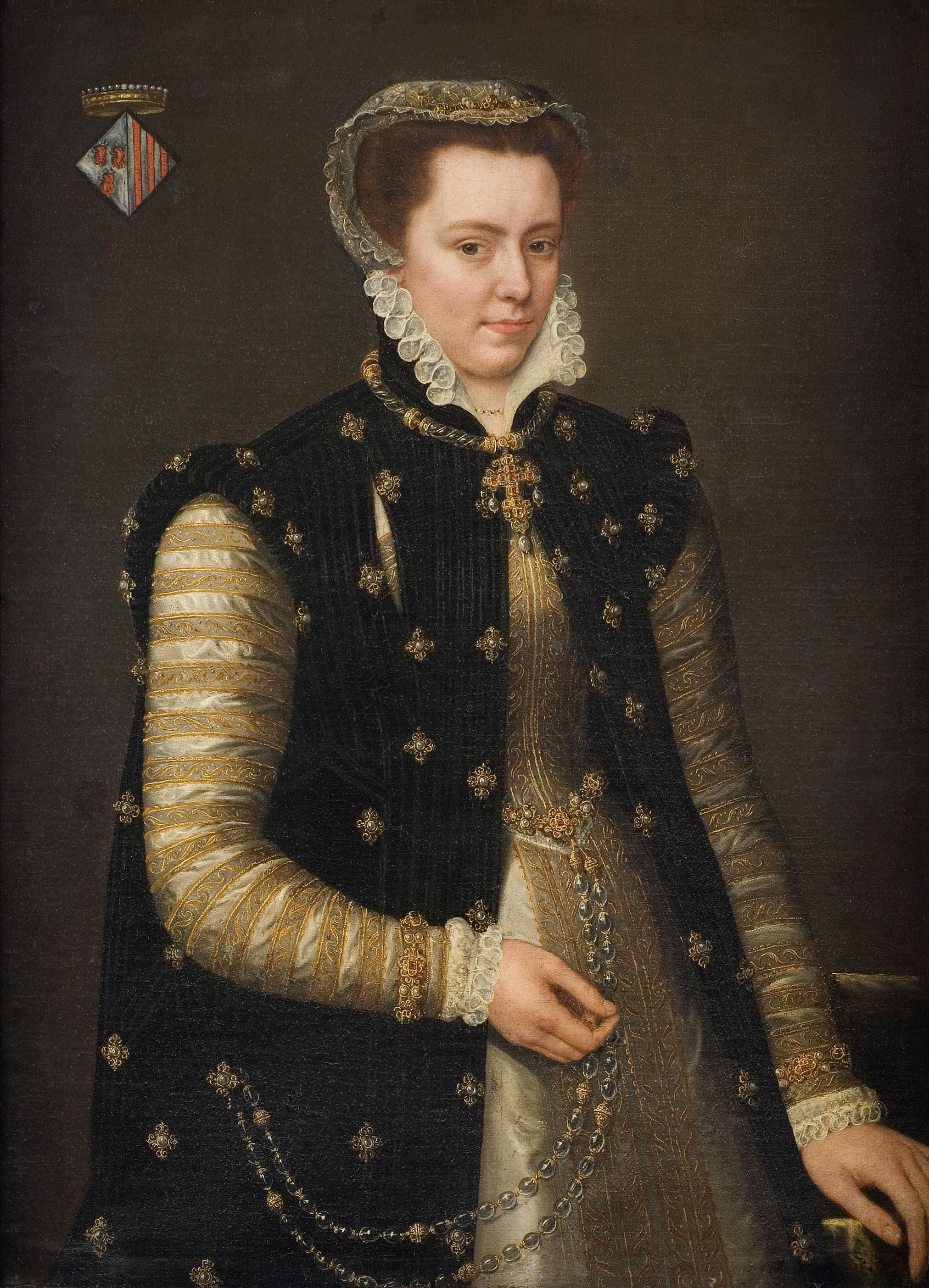 Portrait of Margaret of Parma, duchess of Parma and governor of the Netherlands